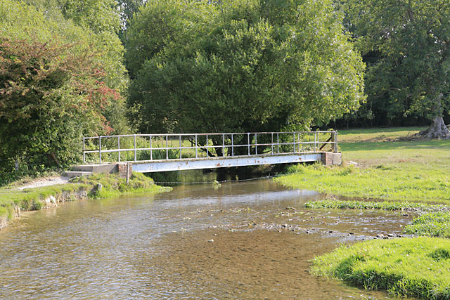 Bridge carrying King's Way across River Meon at Soberton. Looking up stream.